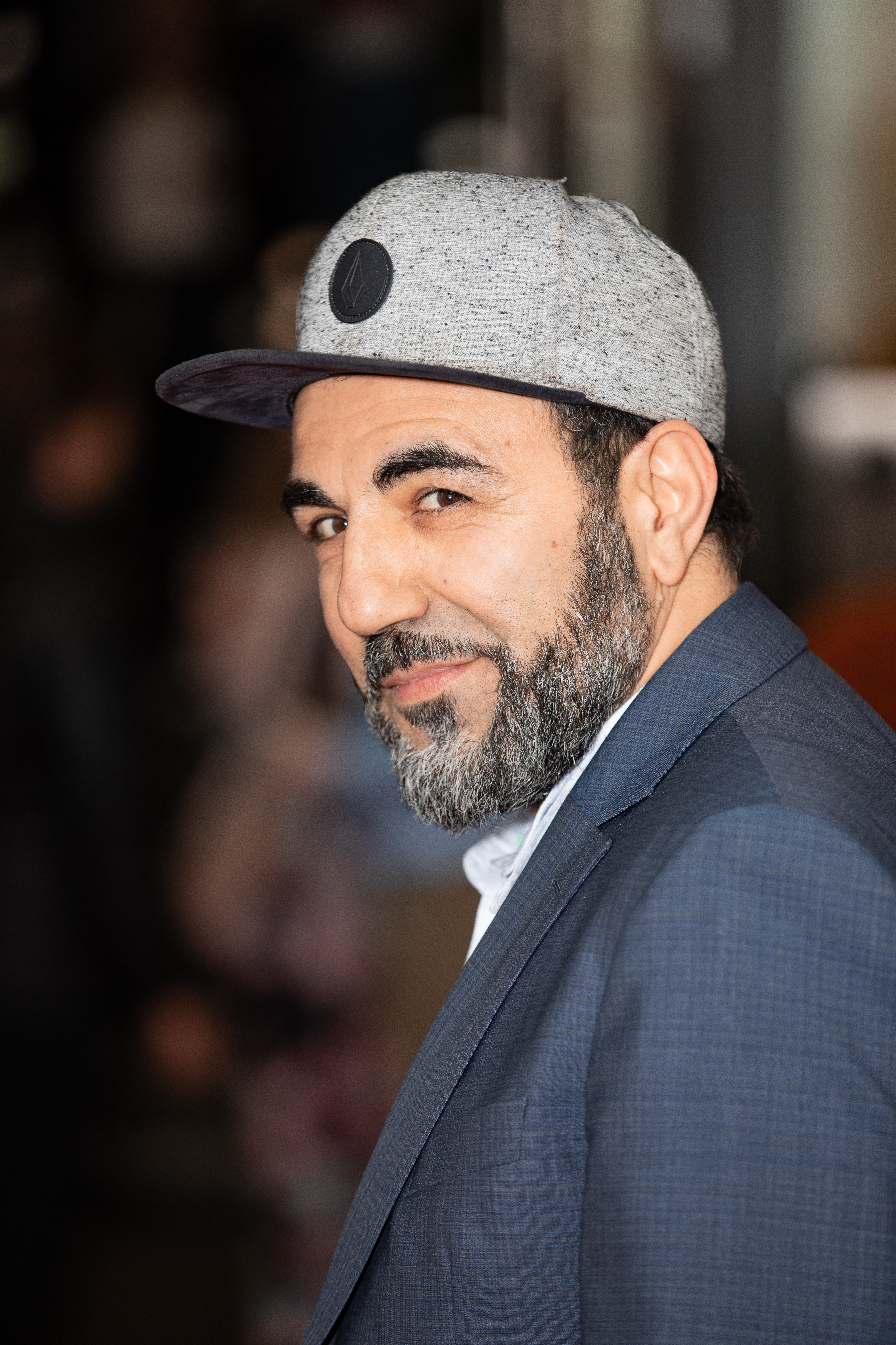 Adnan Maral at the reception of the Hessian state government at the Berlinale 2020